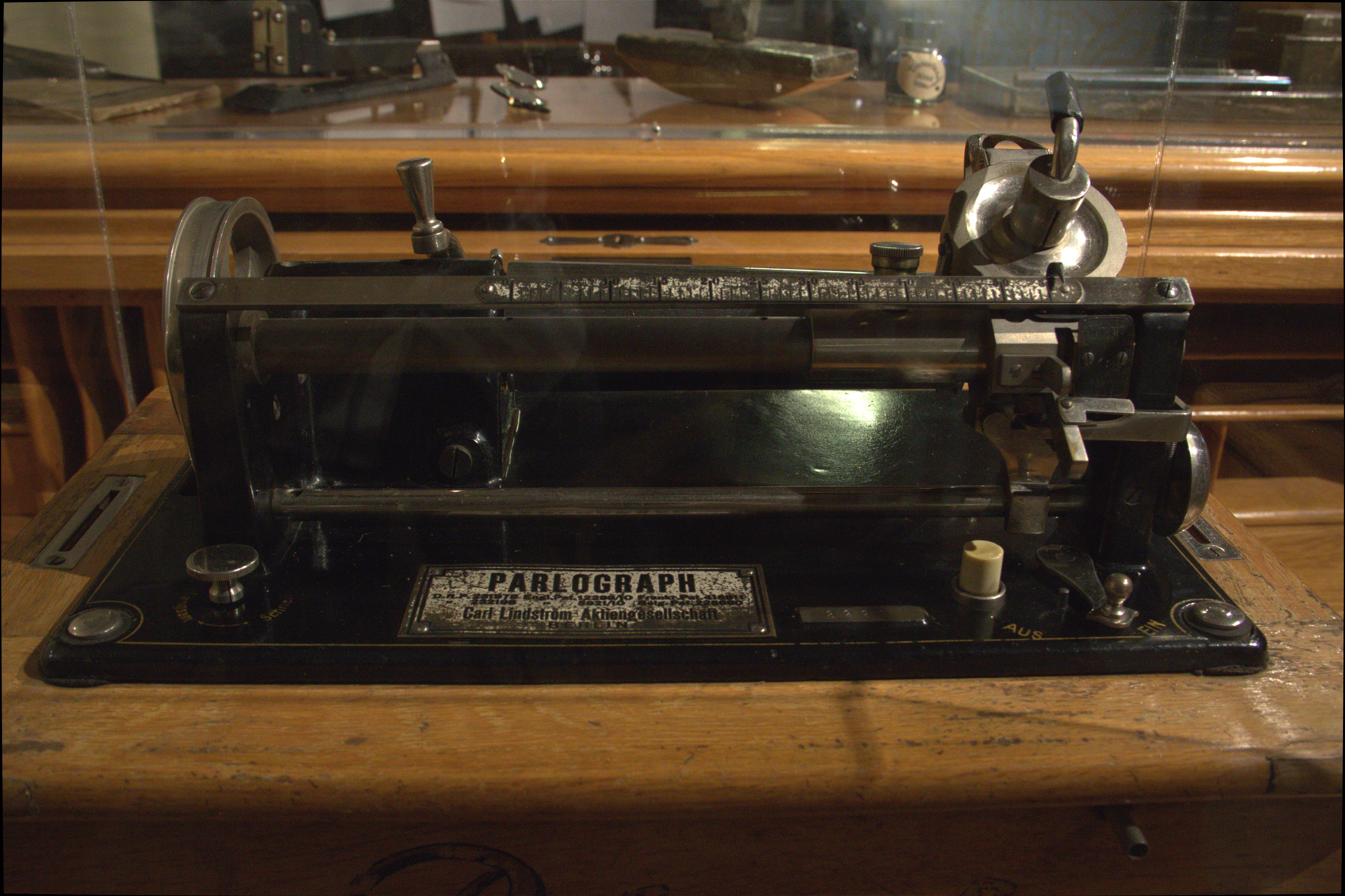 Parlograph in Rupriikki Media Museum. Germany 1910s. Carl Lindström AG, Berlin